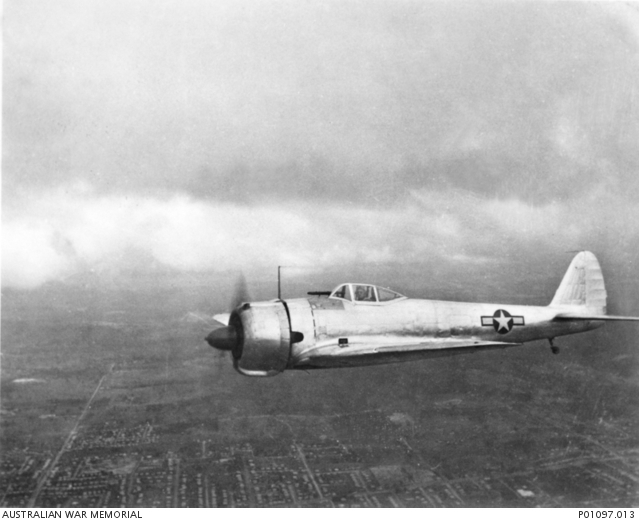 A Japanese Nakajima Ki-43-I Hayabusa aircraft in flight over Brisbane, Queensland (Australia) in 1943. After its capture it was rebuilt by the Technical Air Intelligence Unit (TAIU) in Hangar 7 at Eagle Farm, Brisbane.